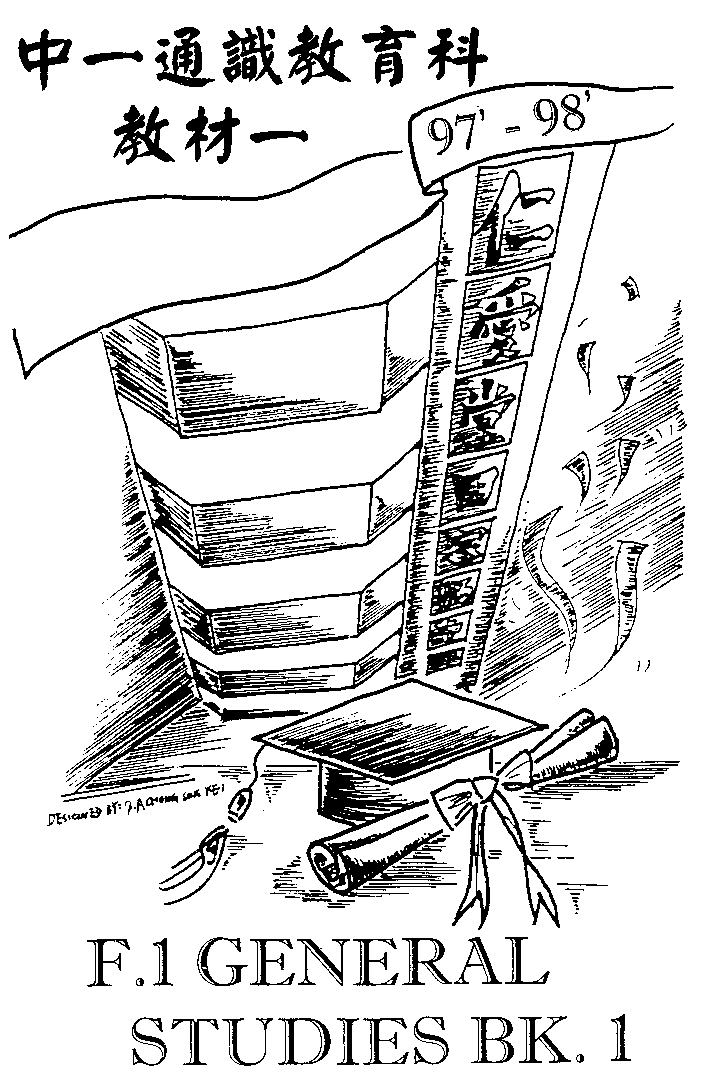 YOTTKP general studies